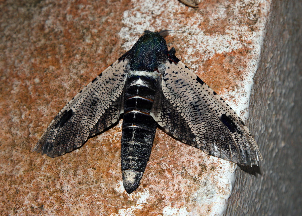 Malaysia, Fraser's Hill, March 2009